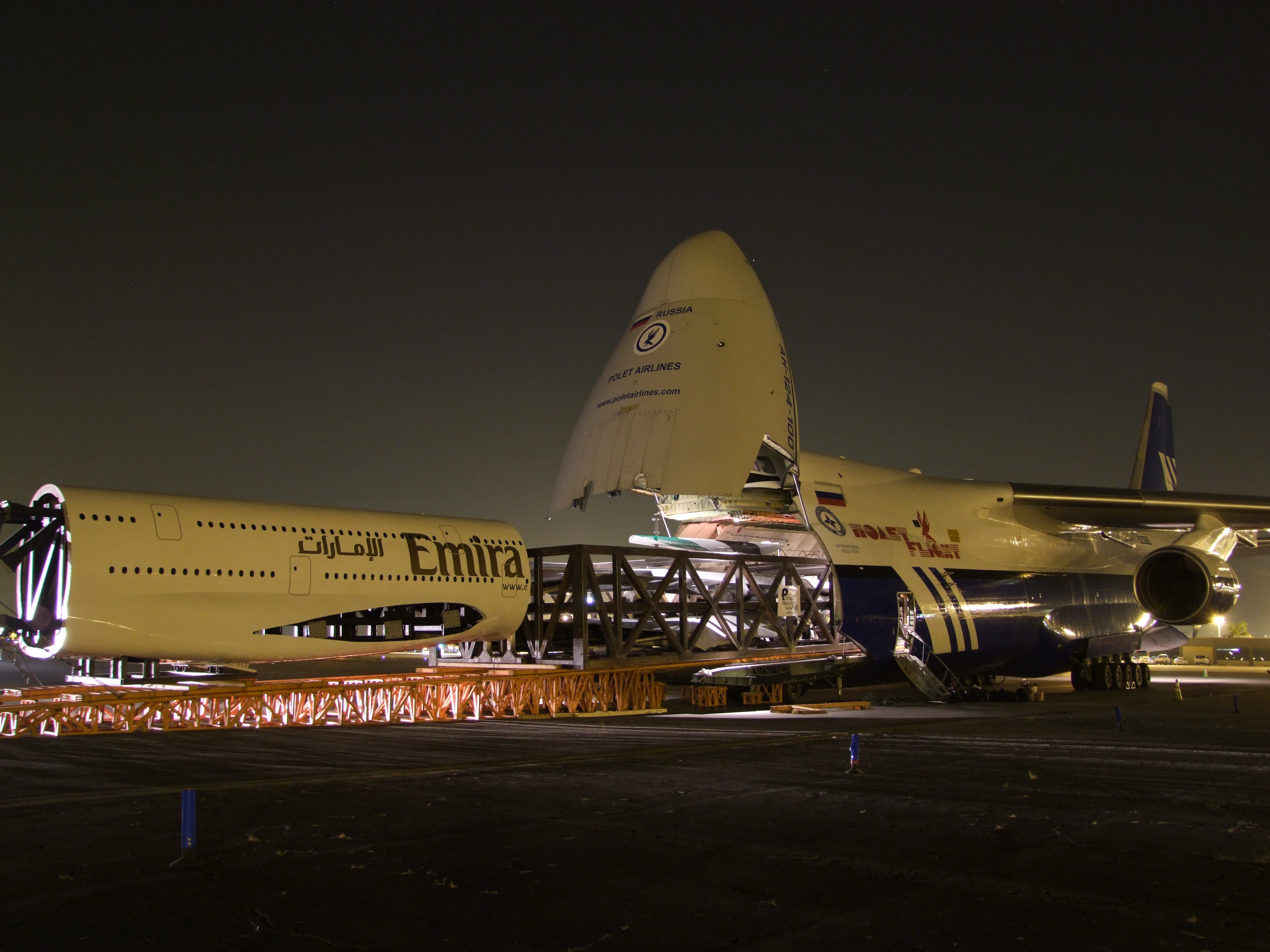 An Antonov An-124 "Ruslan" of Polet Airlines swallows a 1/3 scale model of the world's largest passenger aircraft, the Airbus A380.